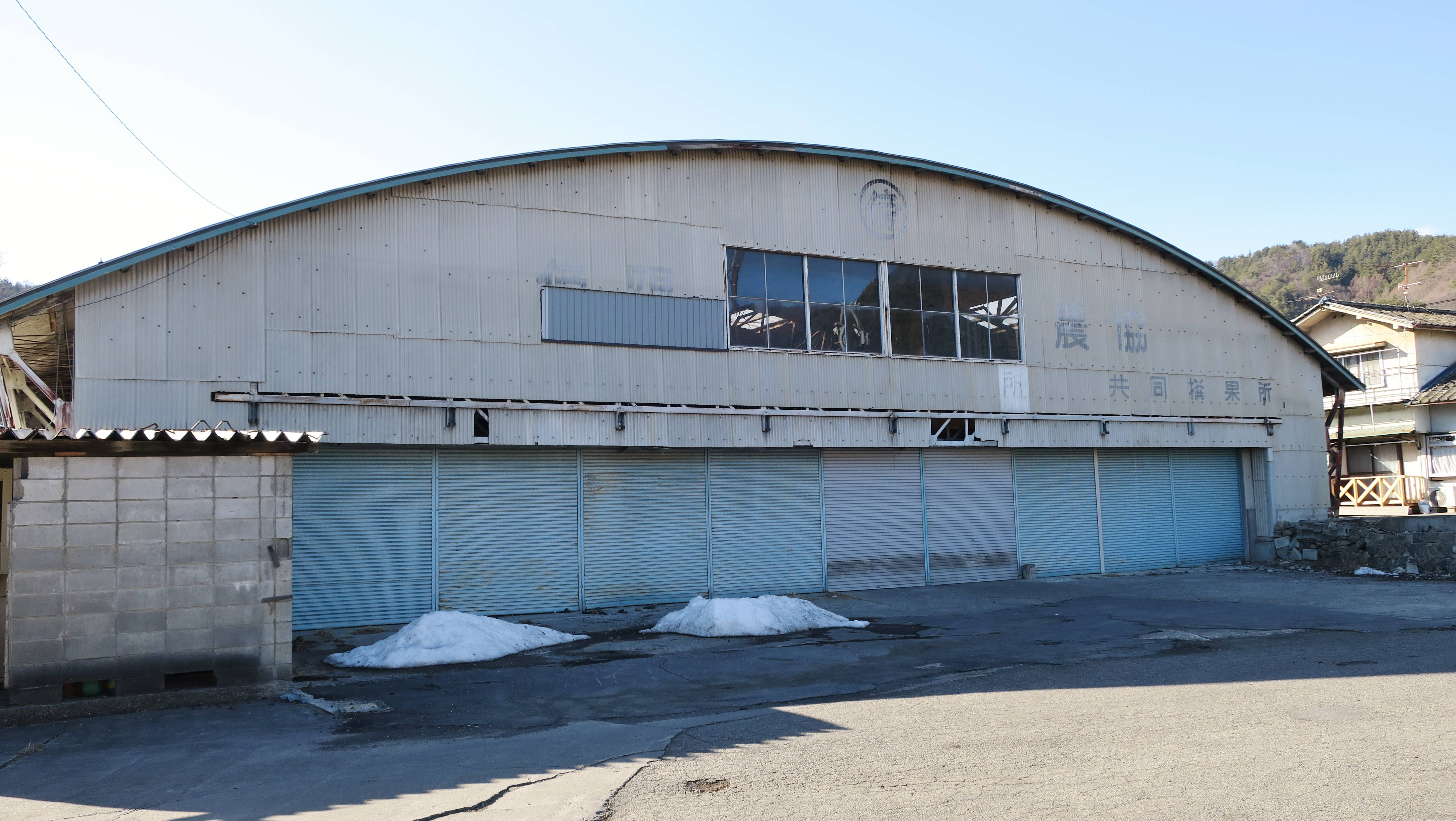 Soehi warehouse.